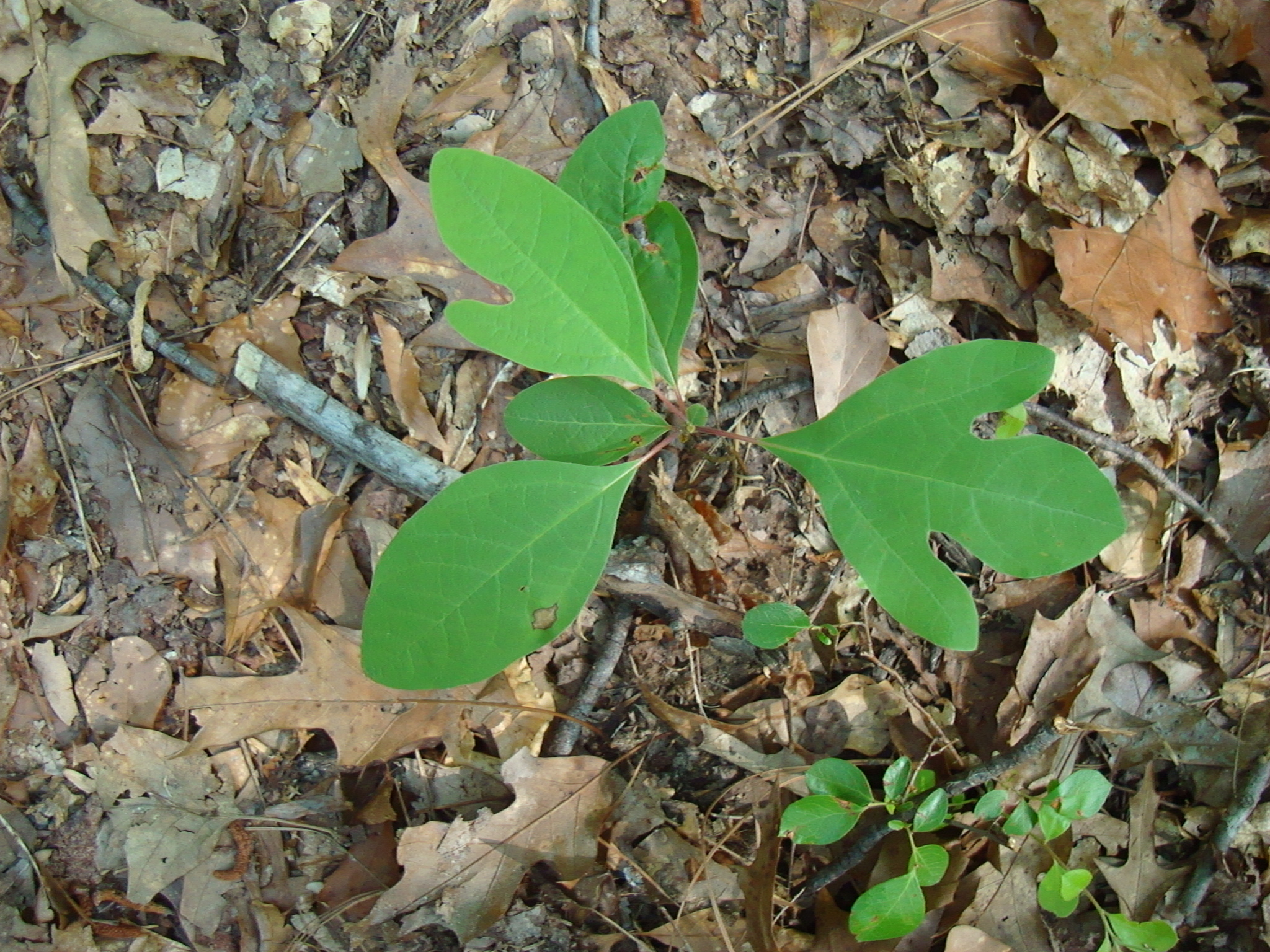 Sassafras albidum, a very young Sassafras albidum plant showing all three major lobe variations--three-lobed leaves, unlobed elliptical leaves, and two-lobed leaves, on the same branch. Photo taken in the woods near Franklin, Virginia.